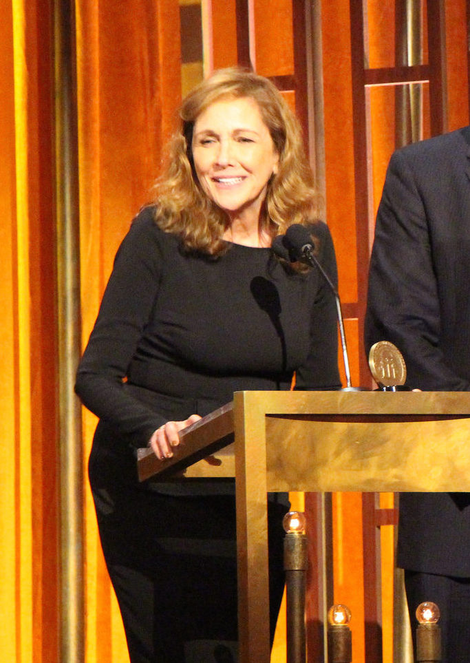 Ann Druyan, Executive Producer and Writer of COSMOS: A SpaceTime Odyssey, accepts the Peabody with Neil deGrasse Tyson, Mitchell Cannold and Brannon Braga.